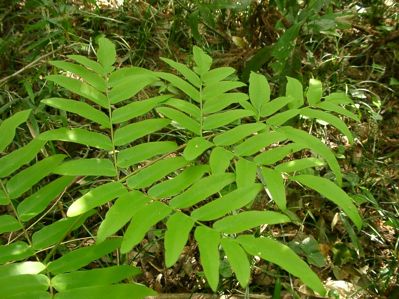 Osmunda japonica's leaf. Location:Yokohama,Kanagawa,Japan